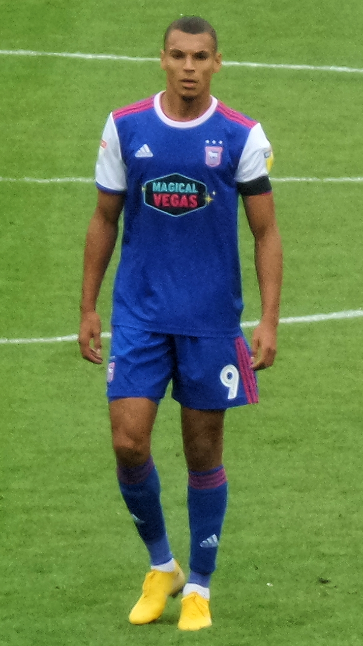 Kayden Jackson on his Ipswich Town debut against Rotherham United on 11 August 2018